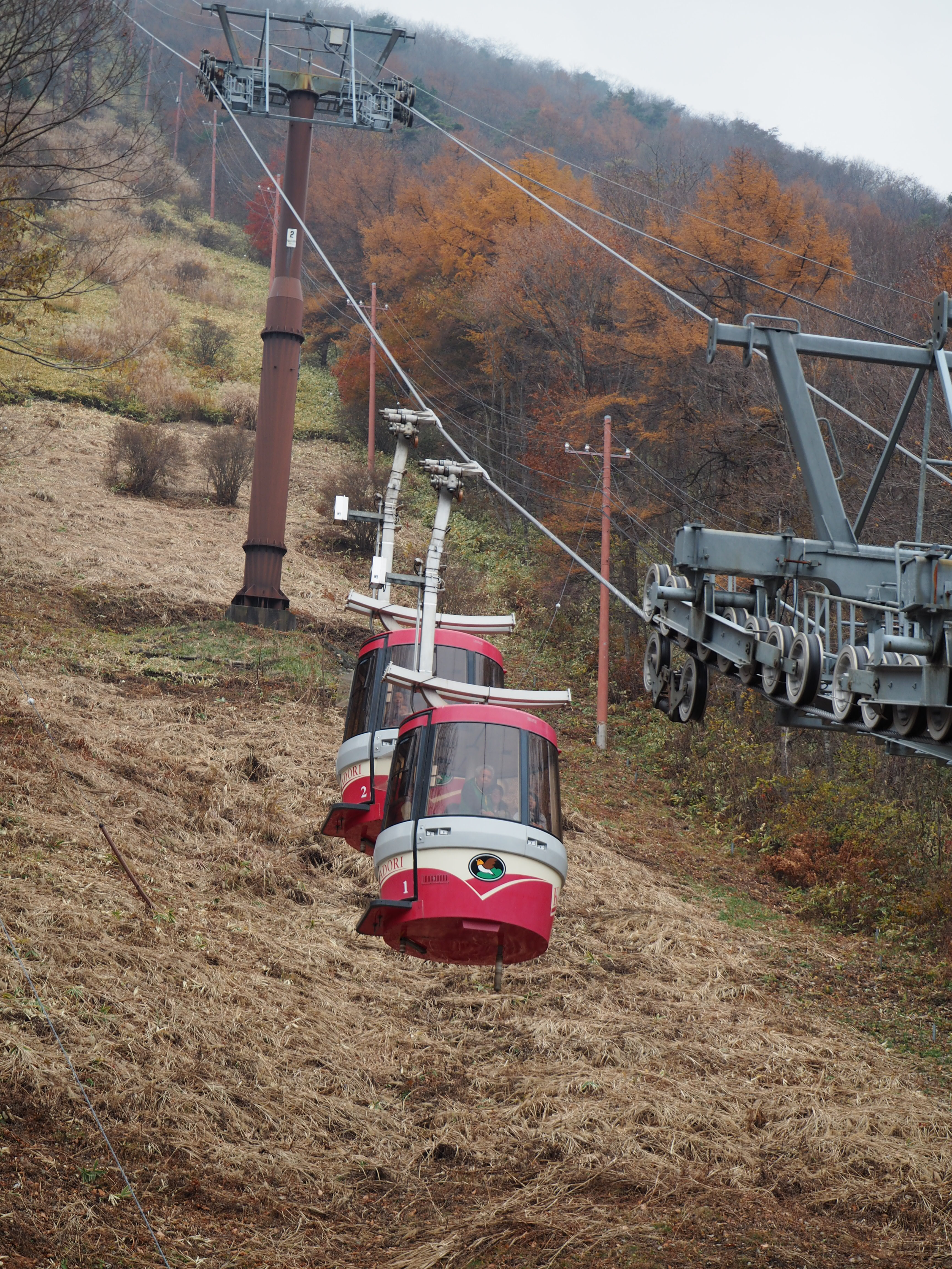 Harunasan Ropeway